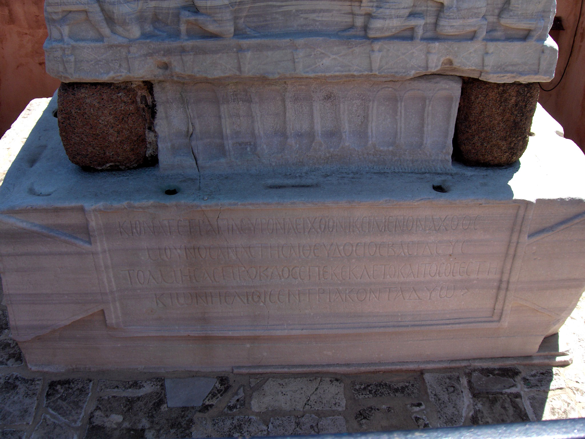 Hippodrome, Greek text on the base of the obelisk of Thutmose III; Istanbul, Turkey